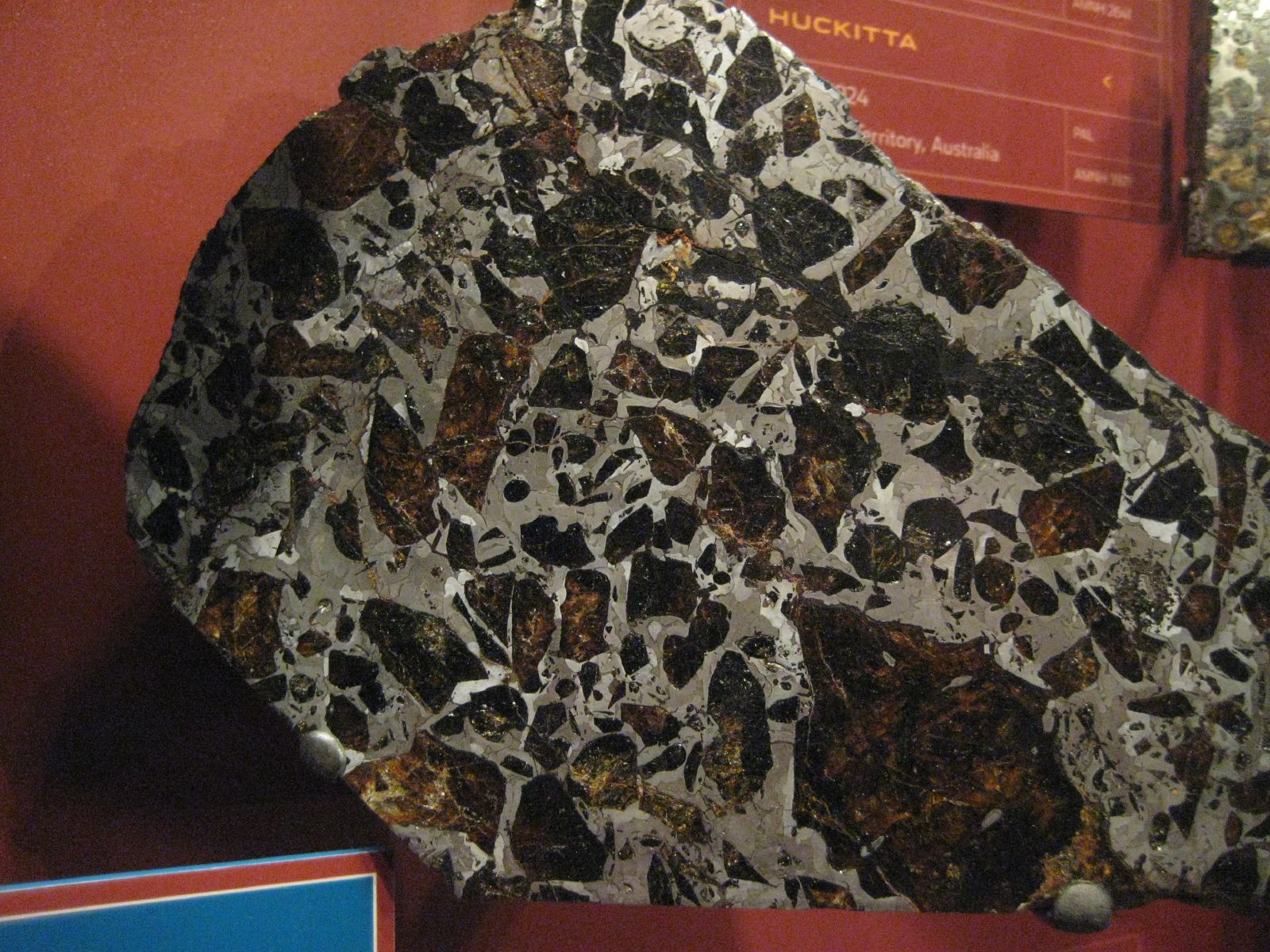 Huckitta pallasite. Olivine crystals forced apart by molten iron. Found 1924, Northern Territory, Australia. American Museum of Natural History.